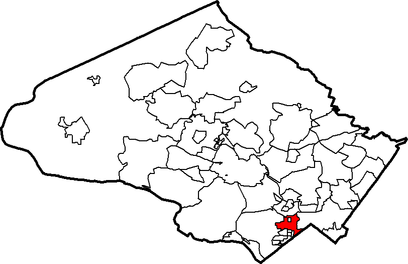 Chevy Chase, Maryland. Location map. Created using Census data